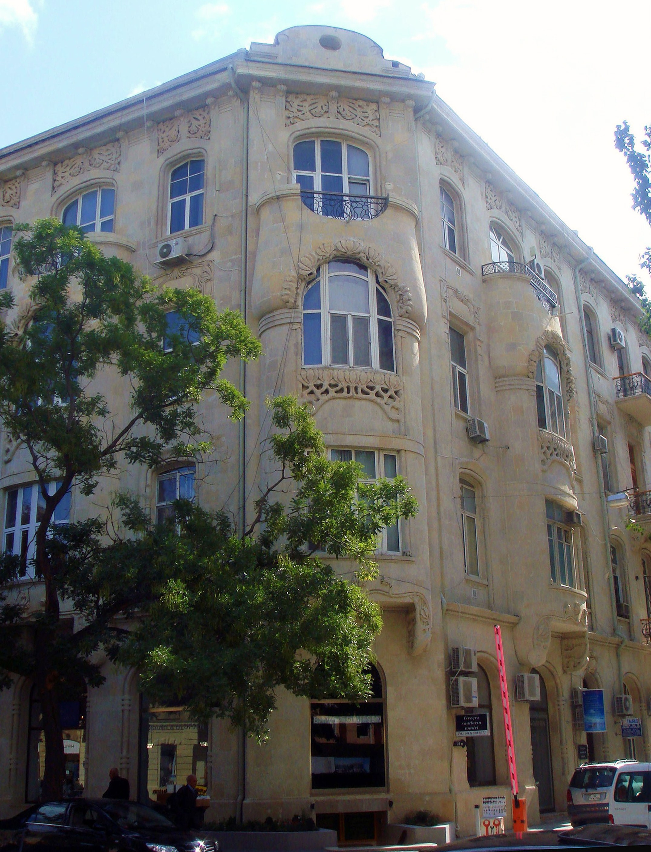 House of Musa Nagiyev.